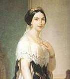 Adelaide Tosi-detail